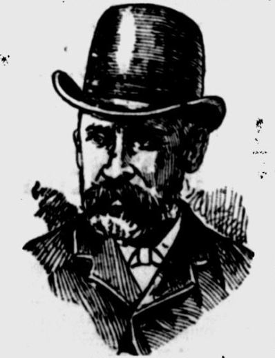 Illustration of Jimmy Logue from The Daily Star (Fredericksburg, VA) published Apr 29 1895 in the article titled "A Romance of Crime".